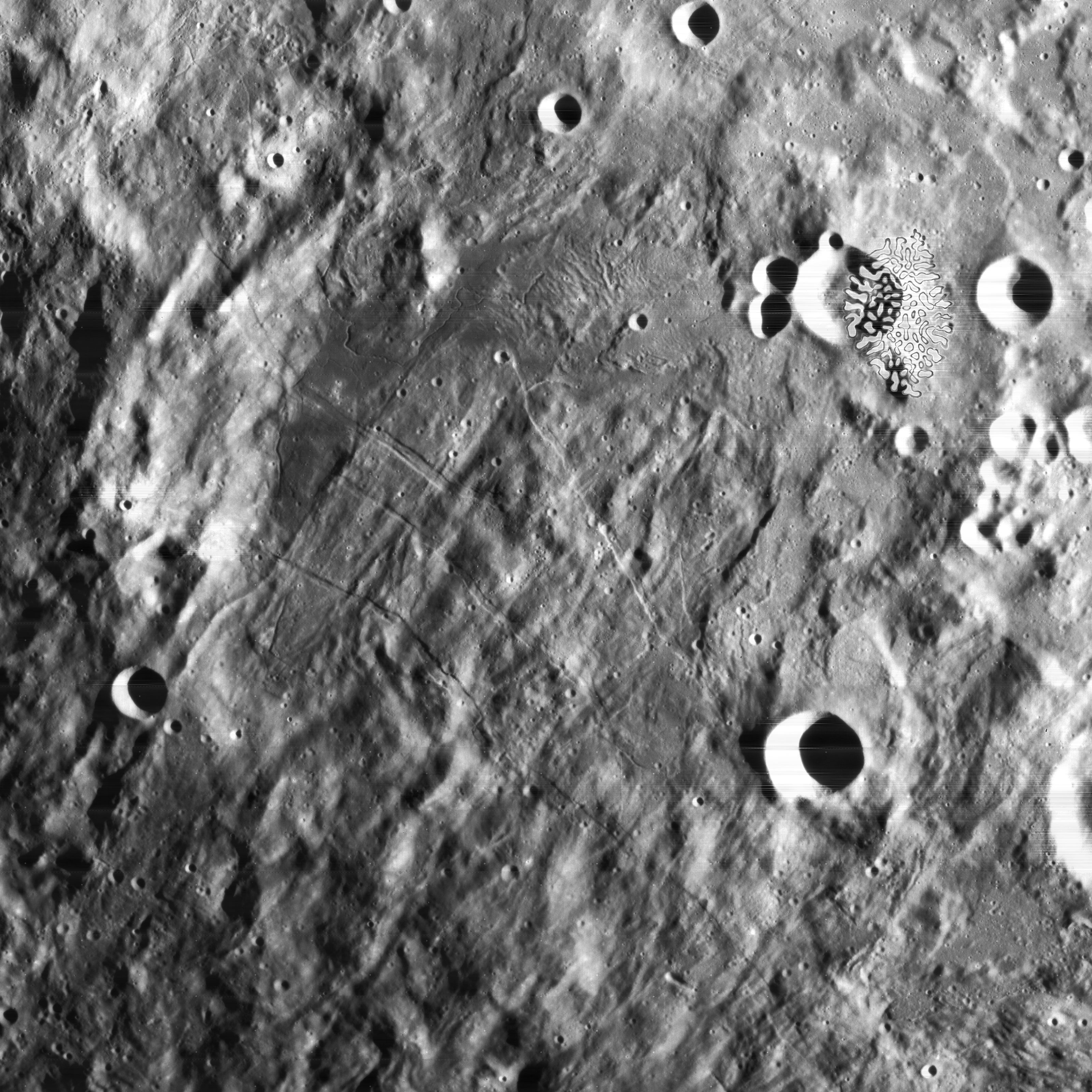 Hedin, on the moon. Group of spots in upper right is blemish on original.